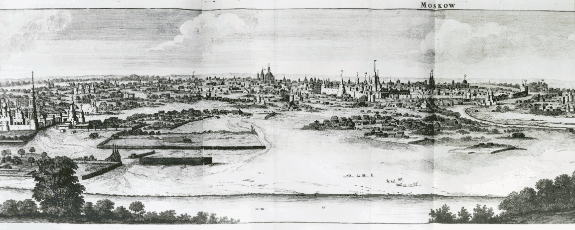 View on Moscow (corrected midtones by 30 to increase brightness)